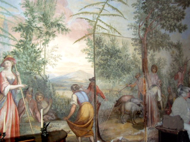 Olive harvest on wall (Villa di Geggiano) - Tuscany, Italy.